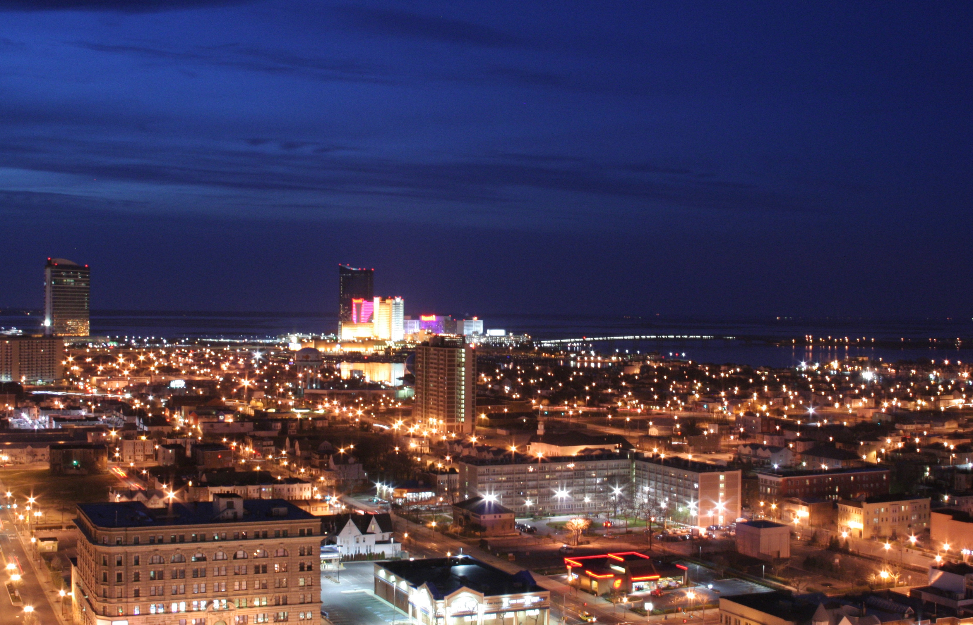 Atlantic City, New Jersey by night